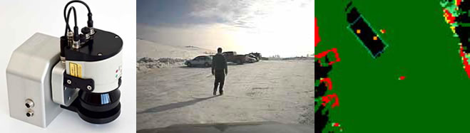 3D modeling and obstacle detection